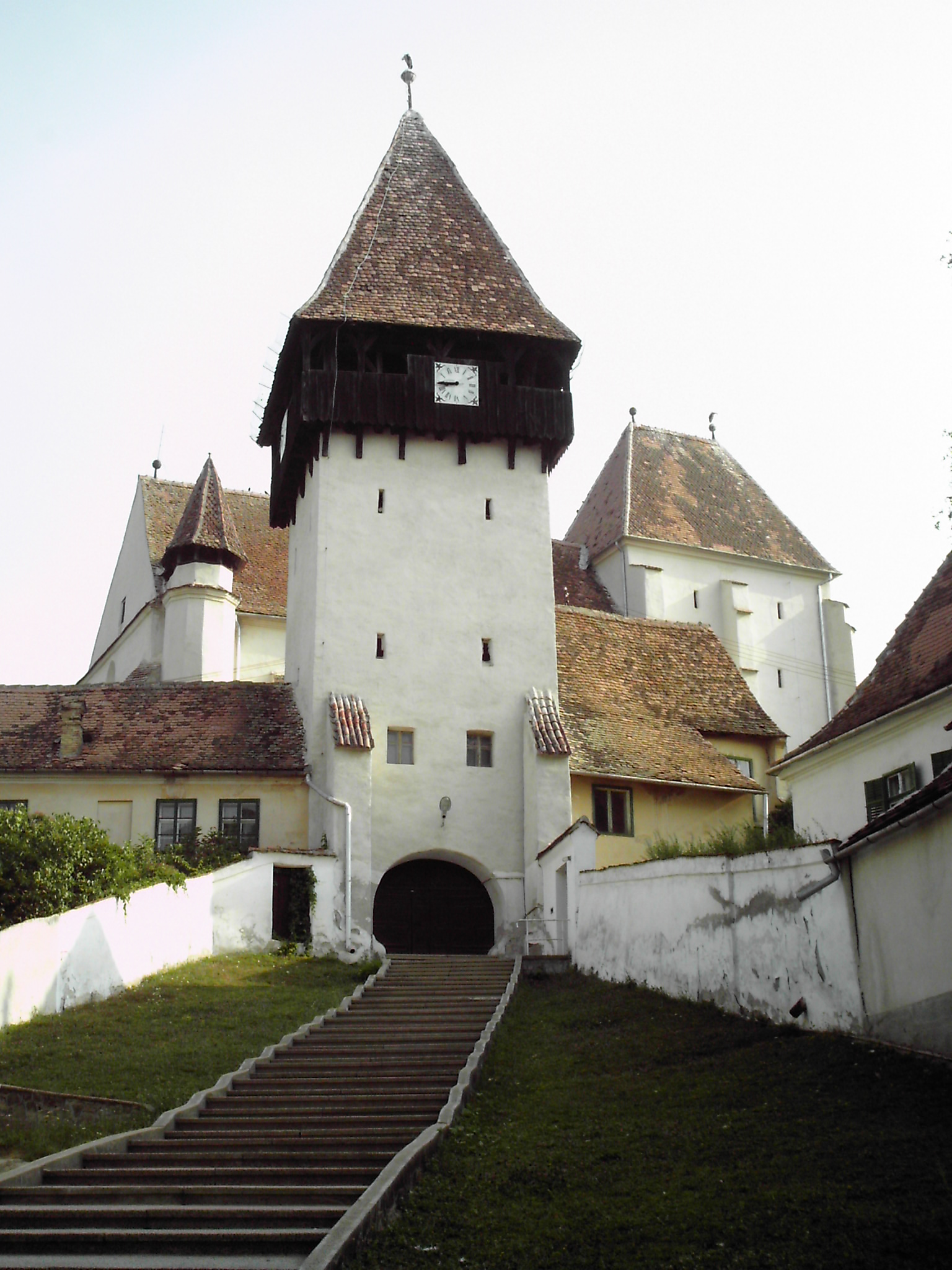 Saxon Fortified Church in Bazna Trasylvania, Romania